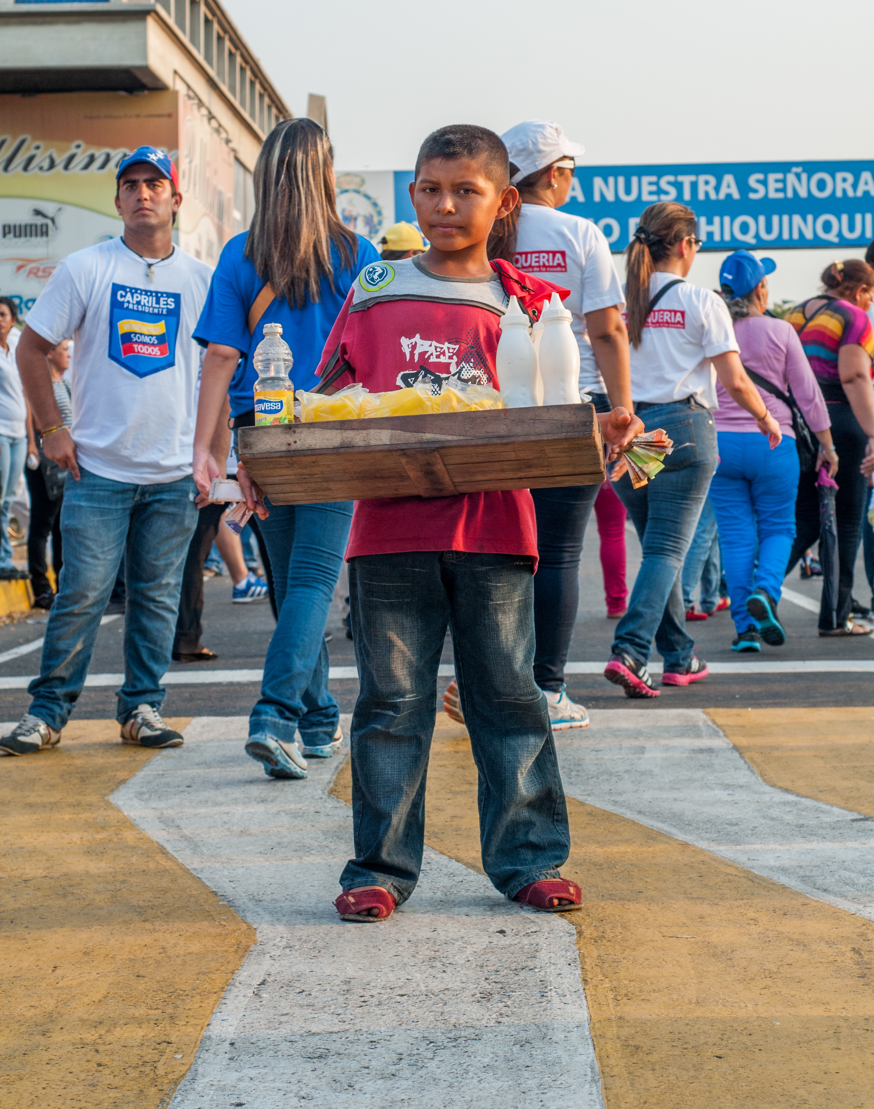 Child working, selling mangoes with salt